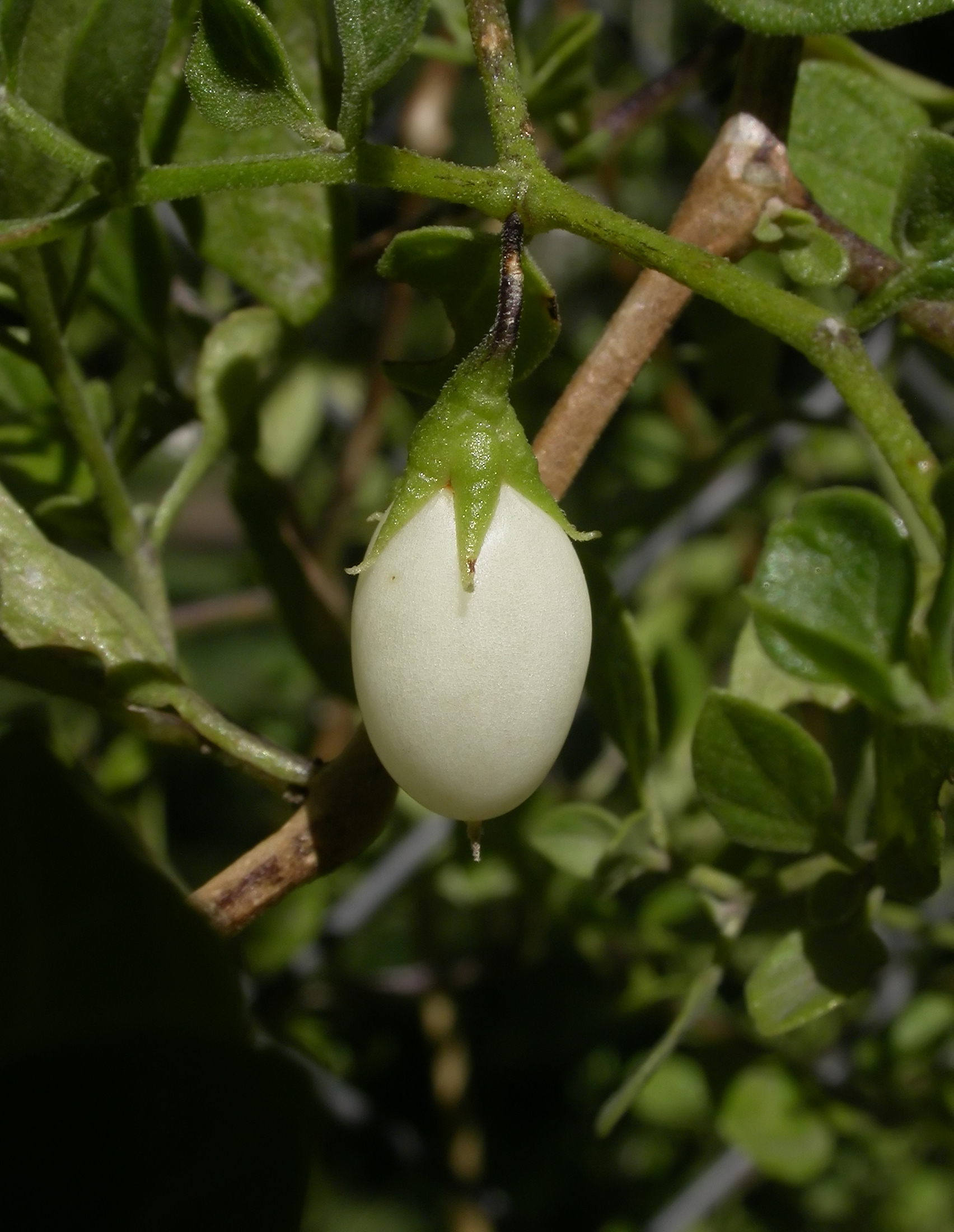 Salpichroa origanifolia, fruit. La Plata (Buenos Aires province, Argentina). Wild plant in situ.